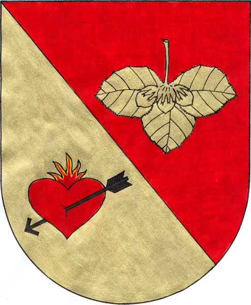 Municipal coat of arms of Líšťany village, Louny District, Czech Republic.